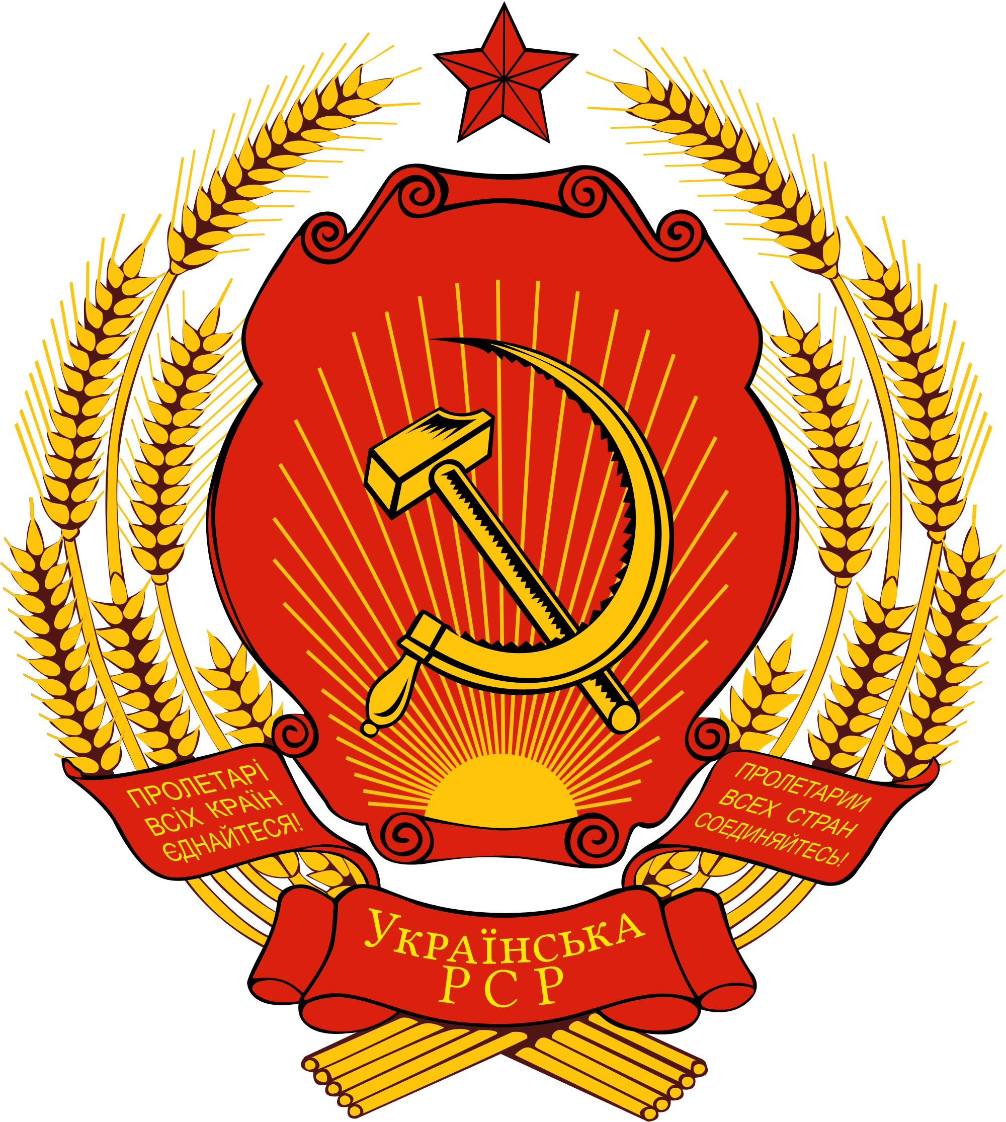 Coat of arms of Ukrainian SSR